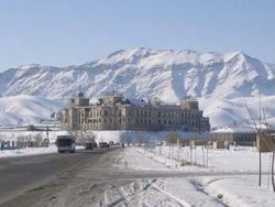 Heavy snowfall at the Dar-ul-Aman Palace in Kabul